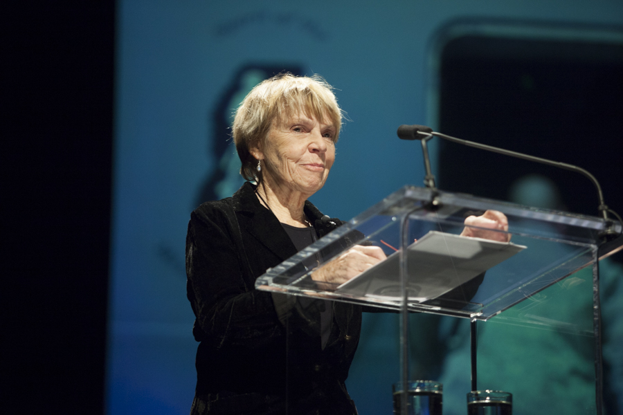 Ann Jones gave a talk and then joined with Andrew Bacevich in a conversation as part of the Lannan Foundation's In Pursuit of Cultural Freedom lecture series live at the Lensic Theater. Wednesday November 12, 2014 Santa Fe, New Mexico